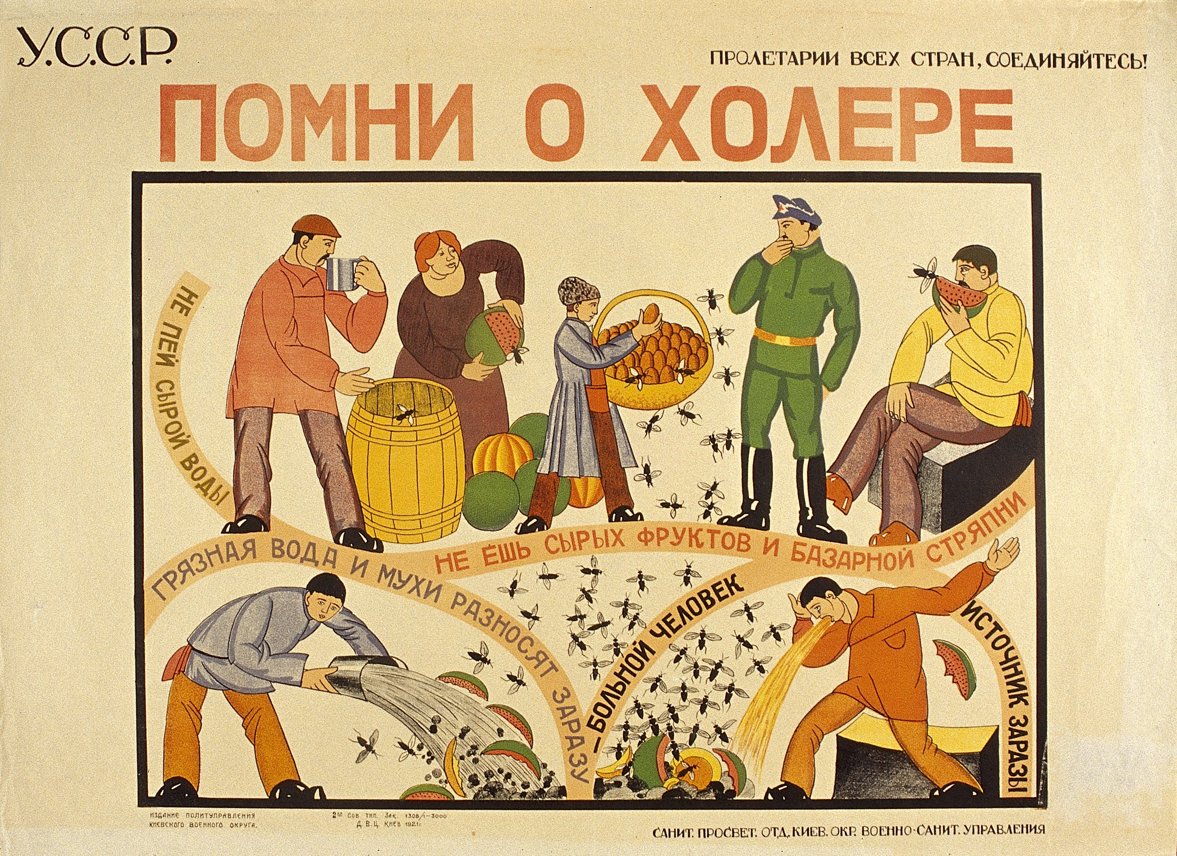 U.S.S.R.(*) Workers of all countries, unite! Remember cholera Unhygienic practices which lead to cholera. Colour lithograph by the Ukraine Military Sanitary Directorate, Sanitary Enlightenment Department of the Kiev Region, 1921. Iconographic Collections Keywords: POSTER; Public Health; Ukraine.; Posters; Cholera(*) In this case Ukrainian Soviet Socialist Republic (not Union of Soviet Socialist Republics)